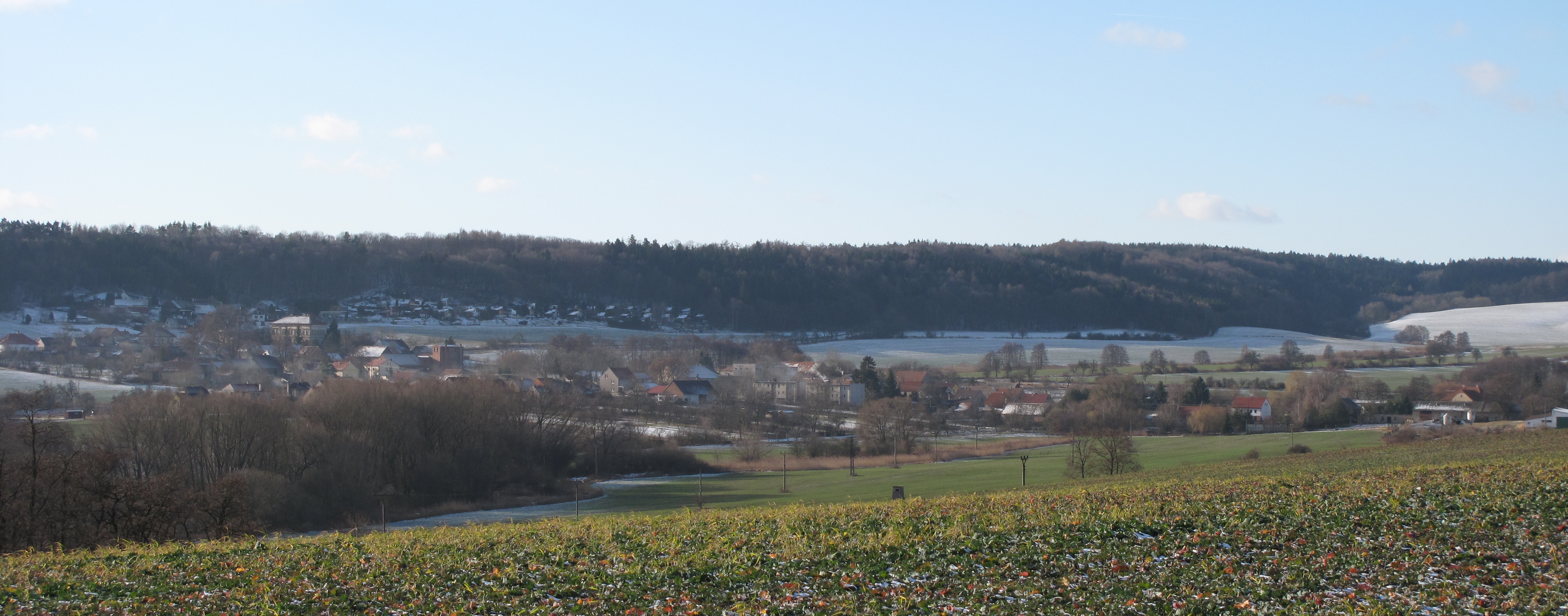 Čanovice village (Malíkovice municipality) as seen from the east, Kladno District, Czech Republic.